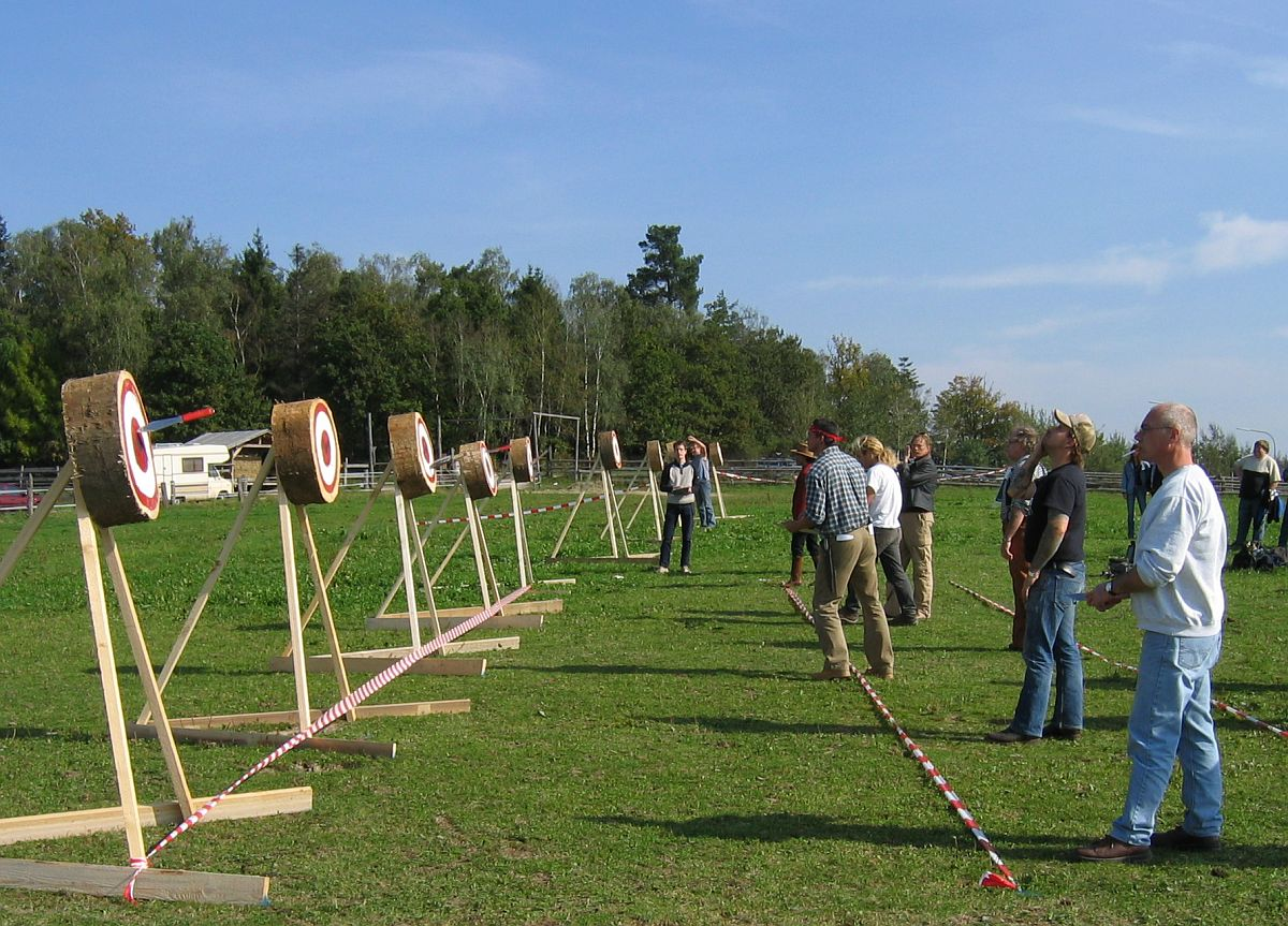 Photo taken at the October 2005 knife throwing competition in Pullman City, Germany. It shows members of the EuroThrowers club throwing with knives at knife throwing targets in a contest situation. The bands on the ground are distance markers. The arbiter in the background notes the points achieved and observes that the safety rules are heeded.